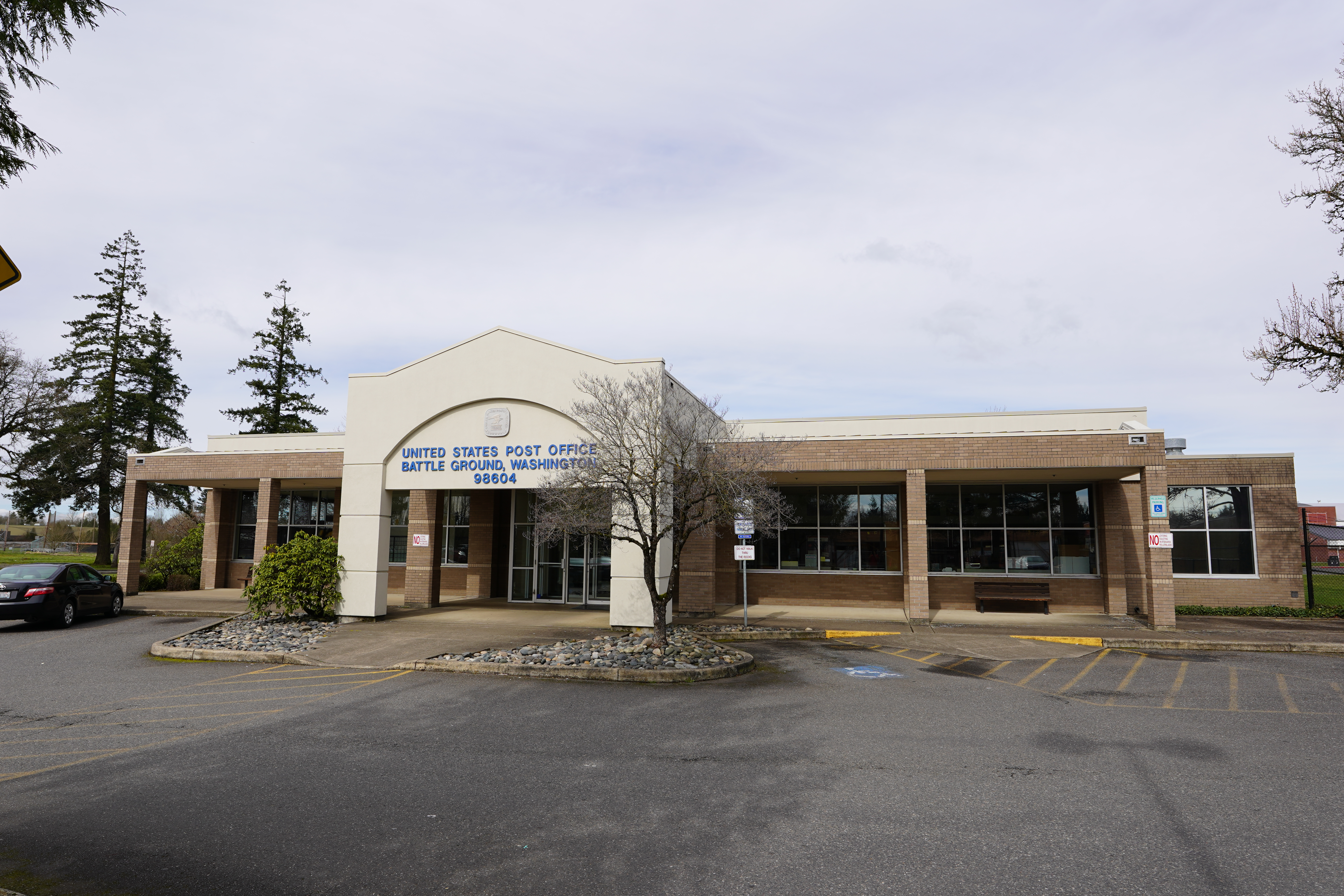 Shown is the United States Post Office for Battle Ground, Washington. Photograph taken on 2020-03-08T20:46:55Z.